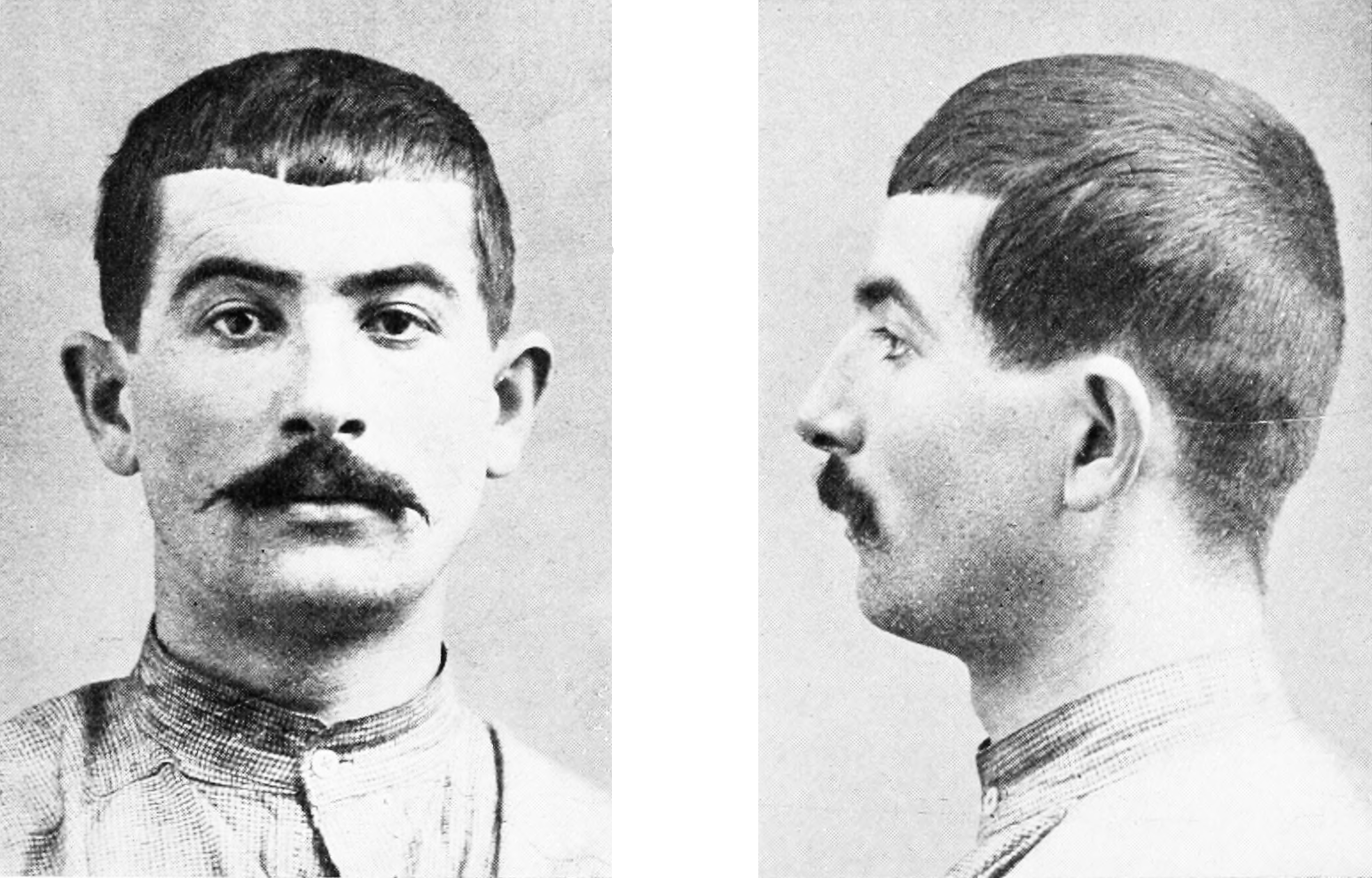 Alpine type of Landes with cephalic index 90